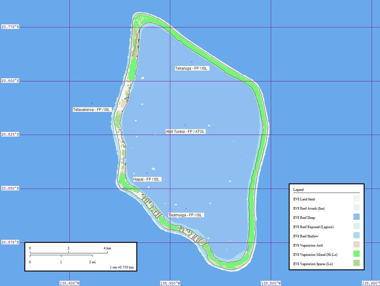 Map of Tureia Atoll, Tuamotu Archipelago, French Polynesia